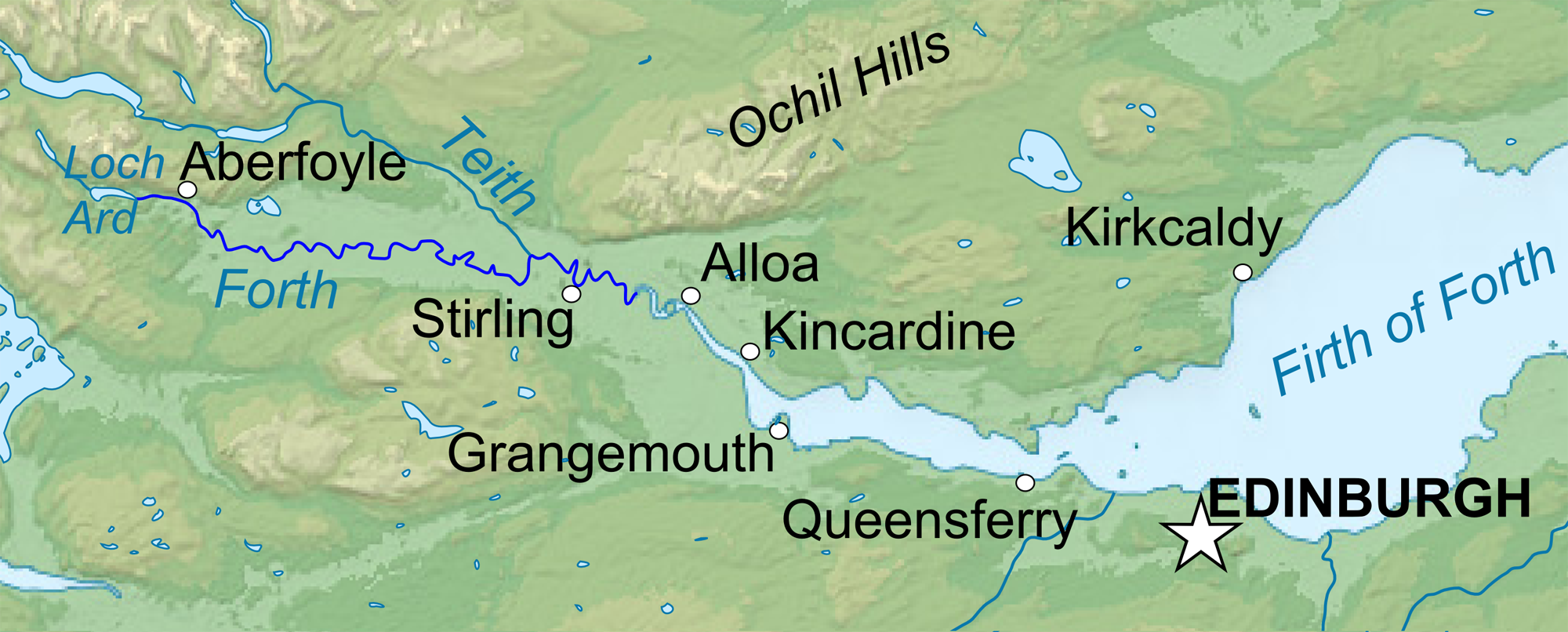 Topographic map in English of Scotland This is a lighter raster JPG format version of Image:Scotland_topographic_map-en.svg which should be used in the article pages, the vector graphics version purpose being for modification and / or translation.